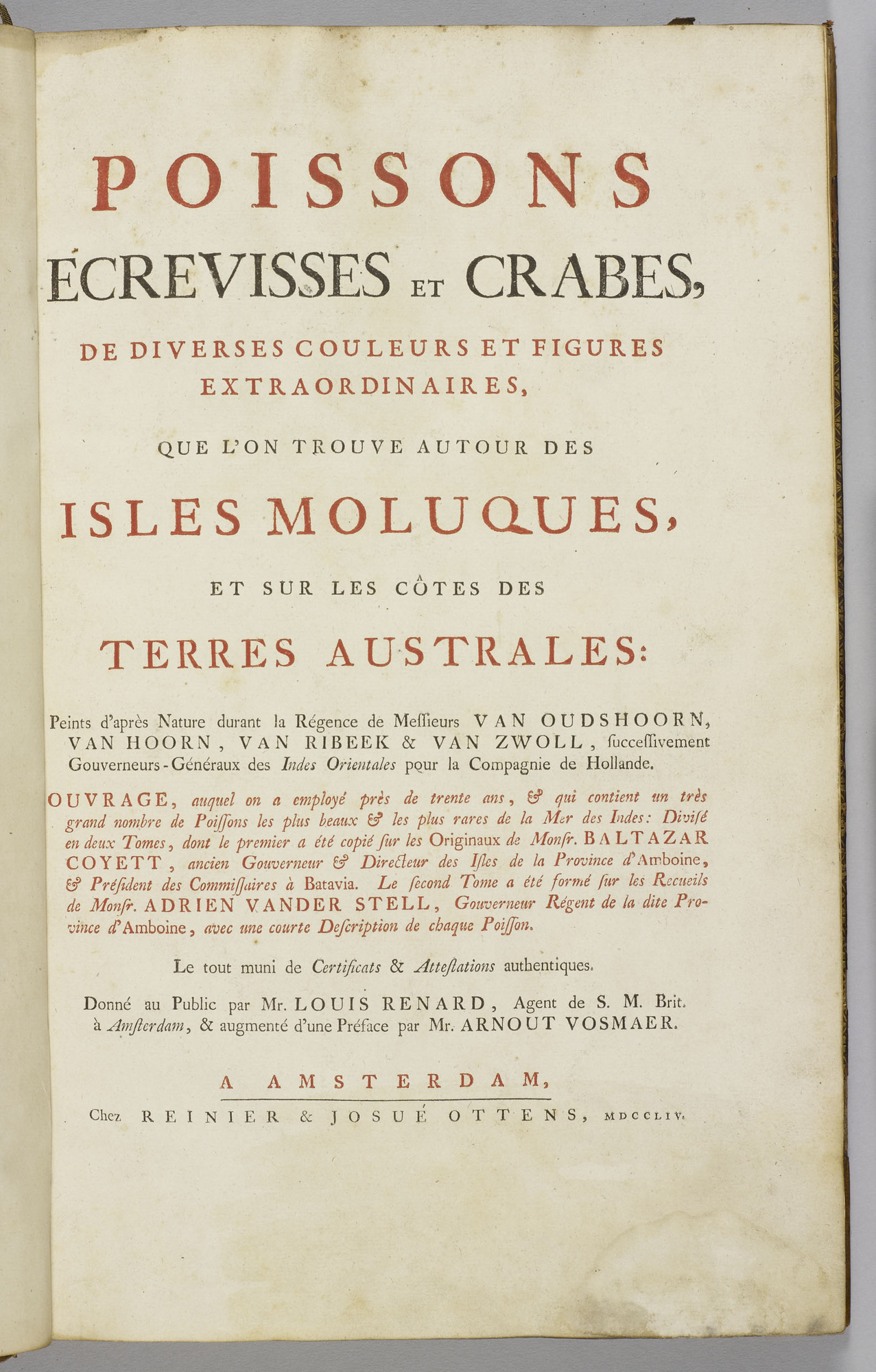 Title page of Poissons, écrevisses et crabes que l'on trouve autour des Isles Moluques, et sur les côtes des Terres Australes (1754)